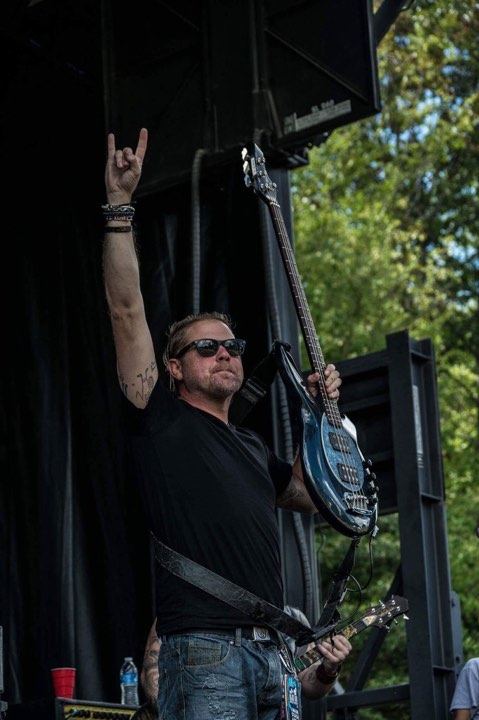 Scott Wilson performing live in 2017.